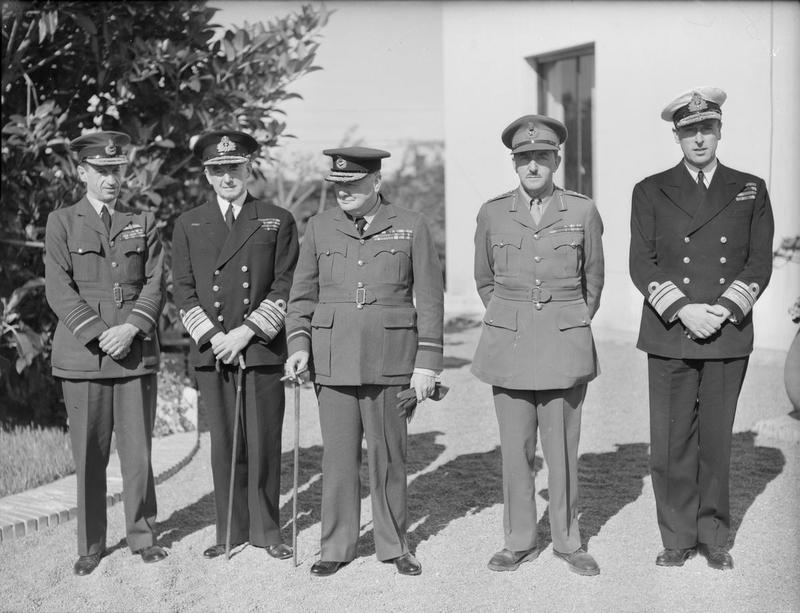 Allies Grand-strategy Conference in N Africa- President Roosevelt Meets Mr Churchill. One of the Most Momentous Conferences of This War Began on January 14 1943, Near Casablanca, When President Roosevelt and Mr Churchill Met To Survey the Entire Field of War, Theatre by Theatre. They Were Accompanied by the Chiefs of Staff of the Two Countries. All Resources Were Marshalled For the Active and Concerted Execution of the Allies Plans Fore the Offensive Campaign of 1943. Mr Roosevelt Later Described the Meeting As the 'unconditional Surrender' Meeting, by Which He Meant That Unconditional Surrender by the Axis Was the Only Assurance For Future World Peace. General De Gaulle and General Giraud Also Met at Casablanca and Discussed Plans For the Unification of the War Effort of the French Empire. Mr Churchill in the uniform of the RAF with his Chiefs of Staff at the Anfa Villa: Front Row L to R: Air Chief Marshal Sir Charles Portal, Admiral Sir Dudley Pound, Mr Churchill, General Sir Alan Brooke and Lord Louis Mountbatten.